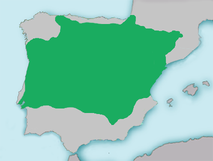 Iberian gudgeon (Gobio lozanoi) range map in the Iberian Peninsula.